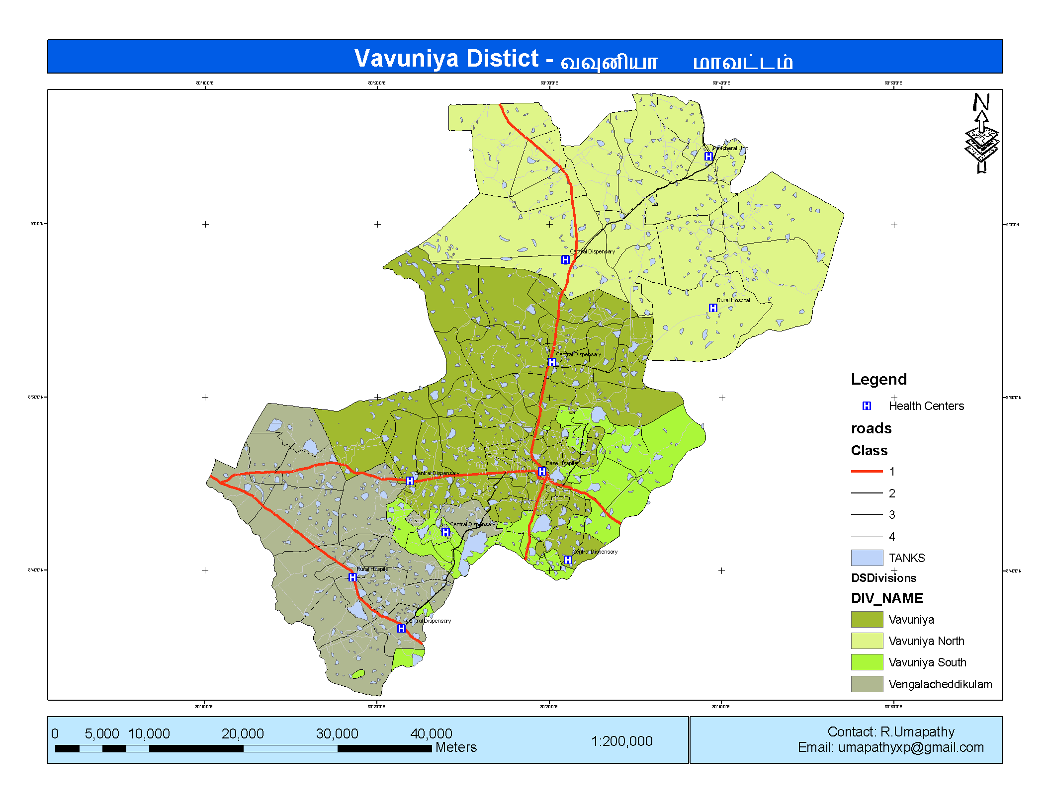 This is a district map of vavuniya, Sri Lanka